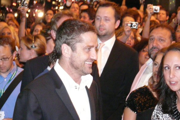 Gerard Butler Arrives at RocknRolla Premiere for Tiff '08 Checkout More Great photos at